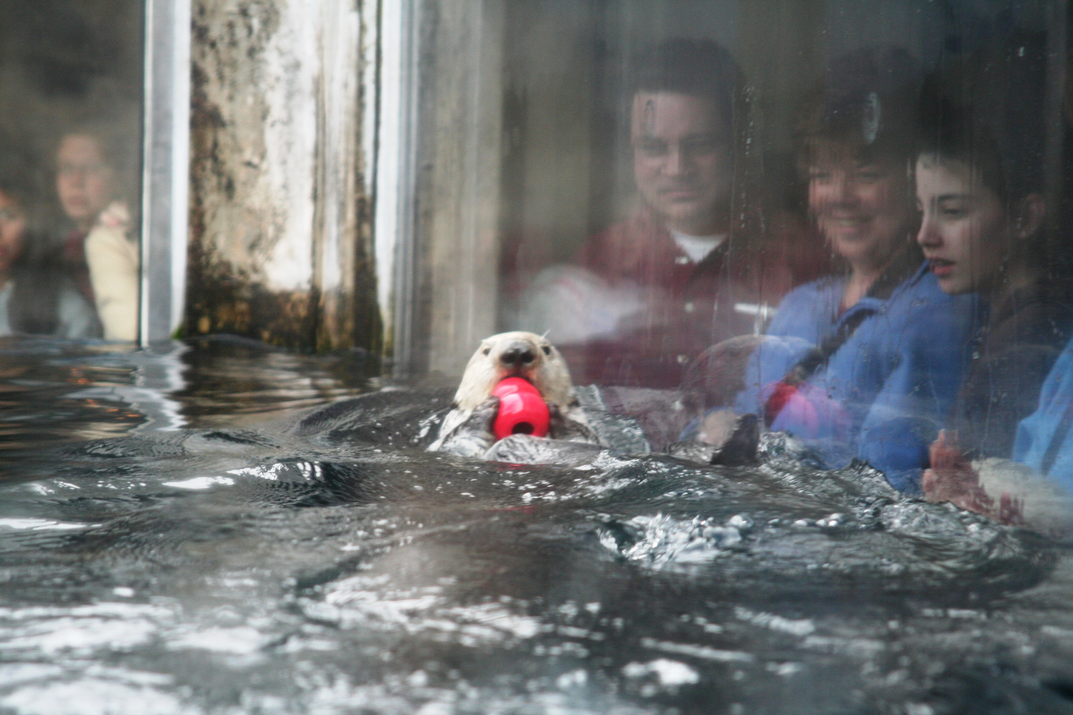 Sea otter Monterey Bay aquarium.